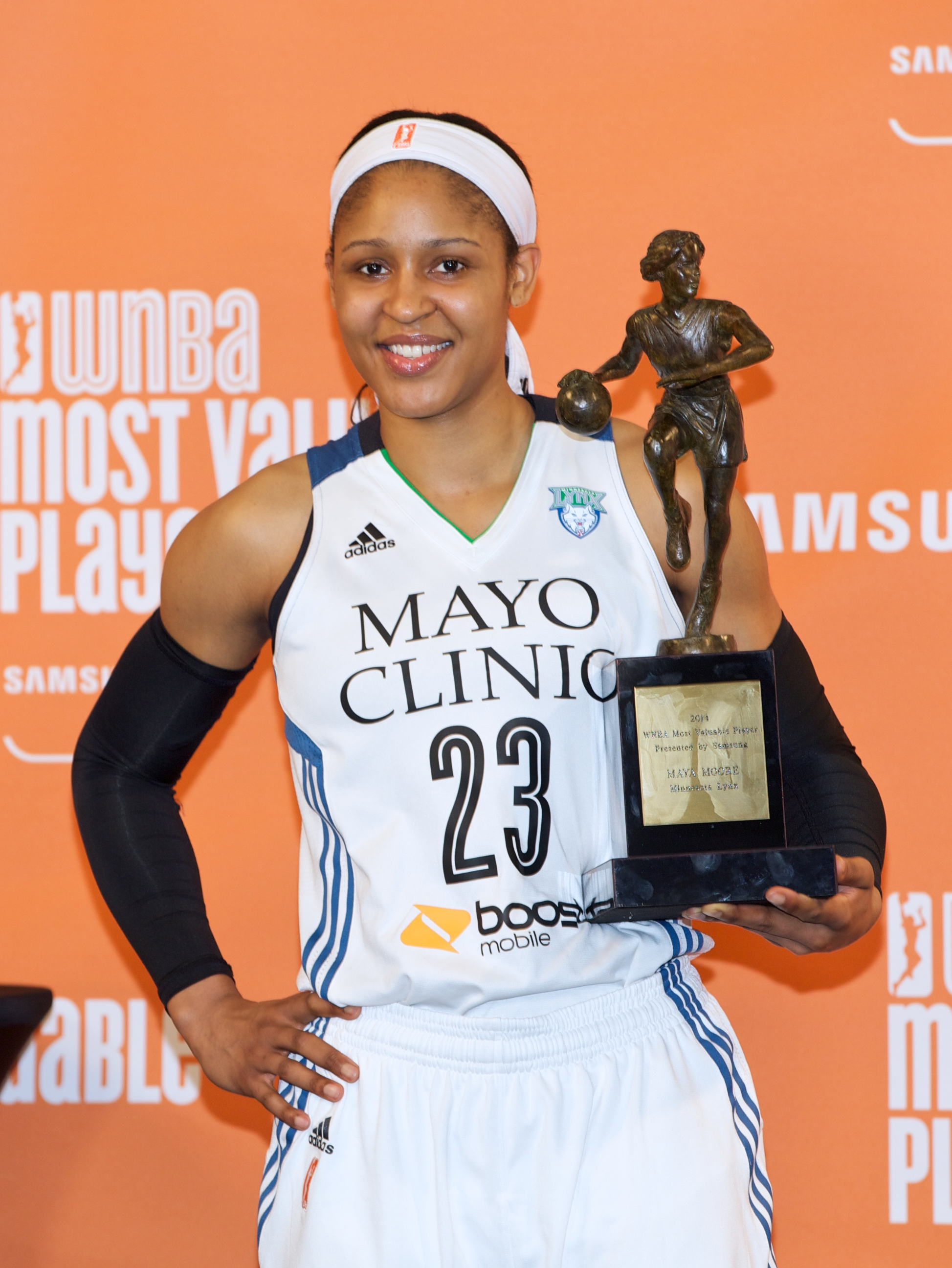 Maya Moore was the first Minnesota Lynx player to win Most Valuable player in the history of the franchise